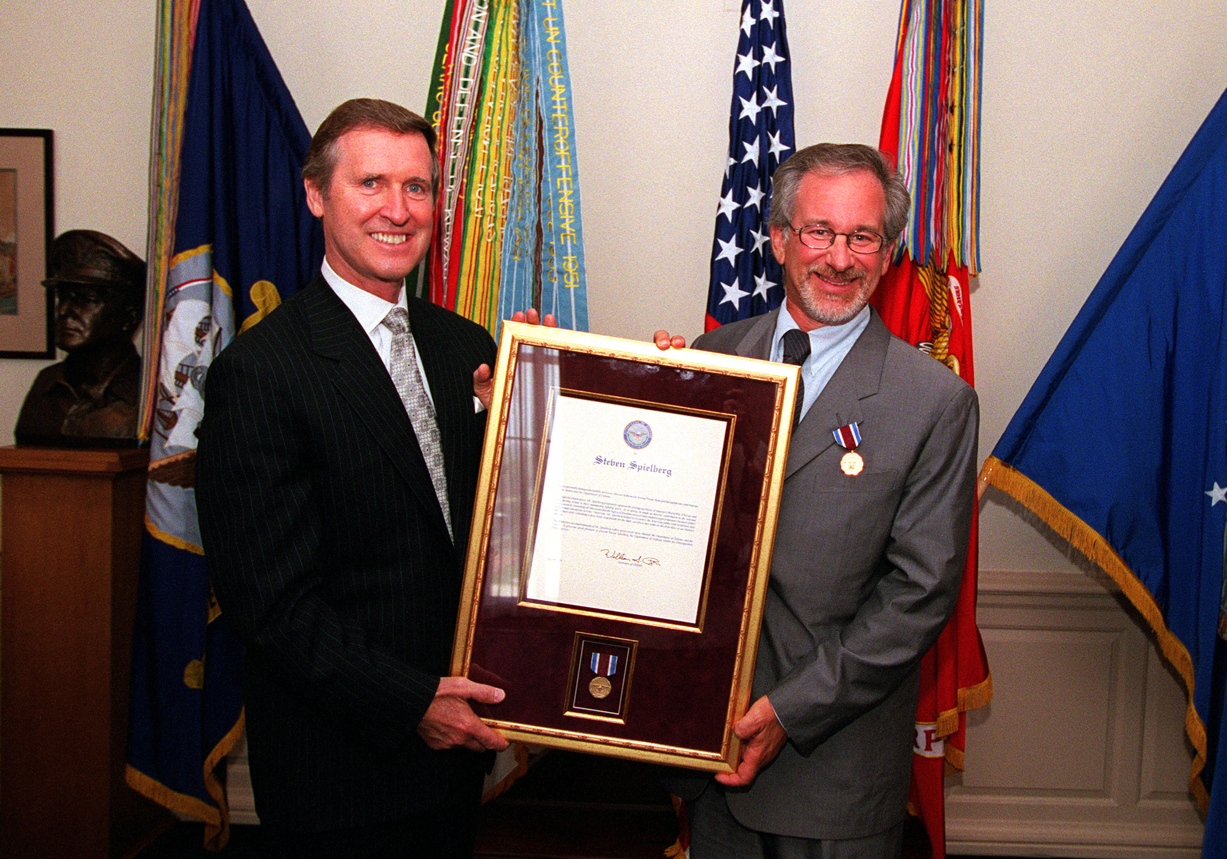 Secretary of Defense William S. Cohen, (left) presents a framed citation accompanying the Department of Defense Medal for Distinguished Public Service to Steven Spielberg (right) in the Pentagon.